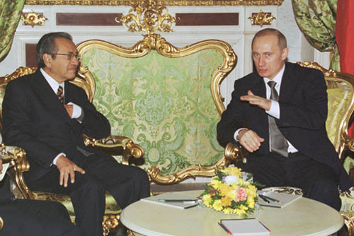 THE GRAND KREMLIN PALACE, MOSCOW. President Putin with Malaysian Prime Minister Mahathir bin Mohamad.